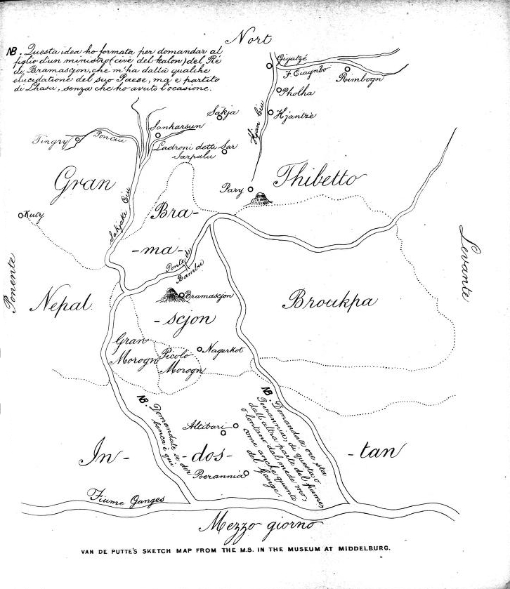 Caption: Van de Putte's Sketch Map from the M.S. in the Museum at Middelburg. A map of eastern Nepal, Bhutan, and southern Tibet by Samuel van der Putte.